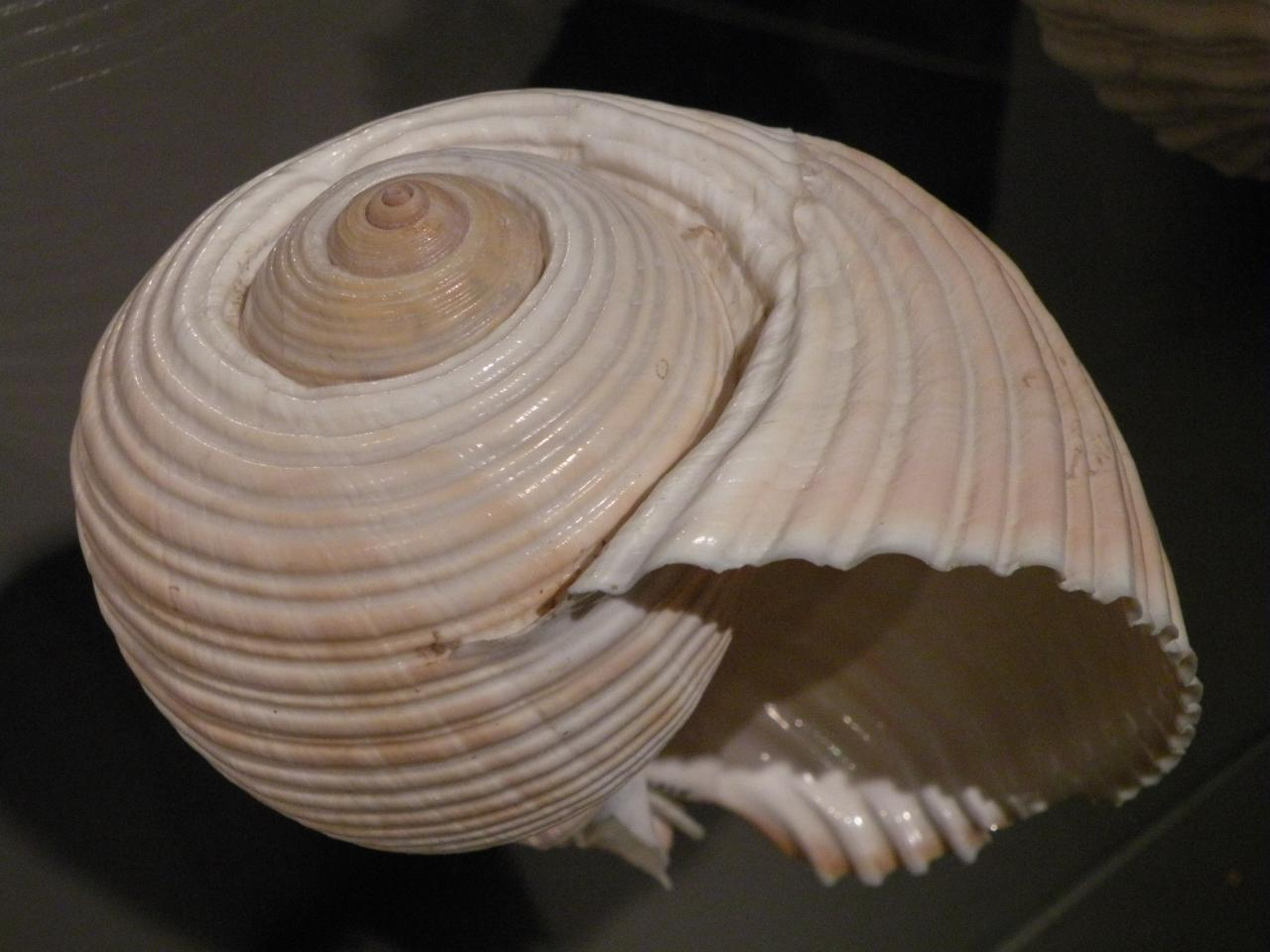 Tonna galea (Giant Tun) Freeport, Texas HMNS 14924. Northwest Gulf Survey Wikipedia Loves Art at the Houston Museum of Natural Science This photo of item # [1] at the Houston Museum of Natural Science was contributed under the team name "Assignment_Houston_One" as part of the Wikipedia Loves Art project in February 2009. Houston Museum of Natural Science The original photograph on Flickr was taken by Stephaniedancer—please add a comment to the original Flickr page whenever a use has been made on Wikipedia or another project. Project galleries on Flickr: this institution, this team